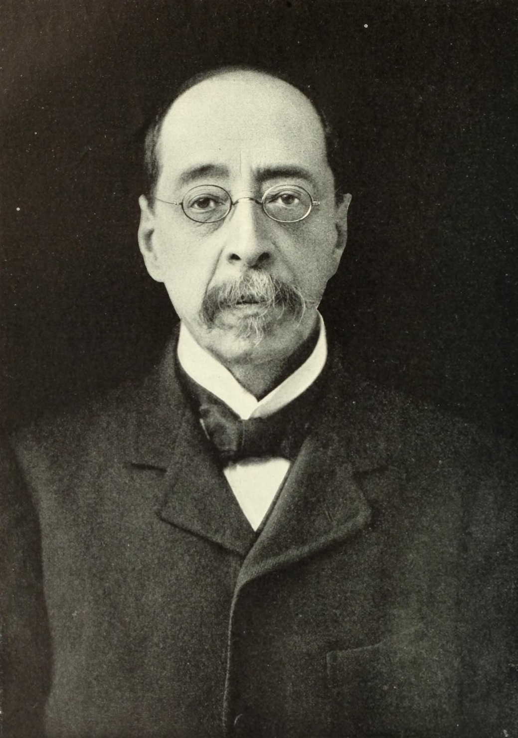 Portrait of John LaFarge